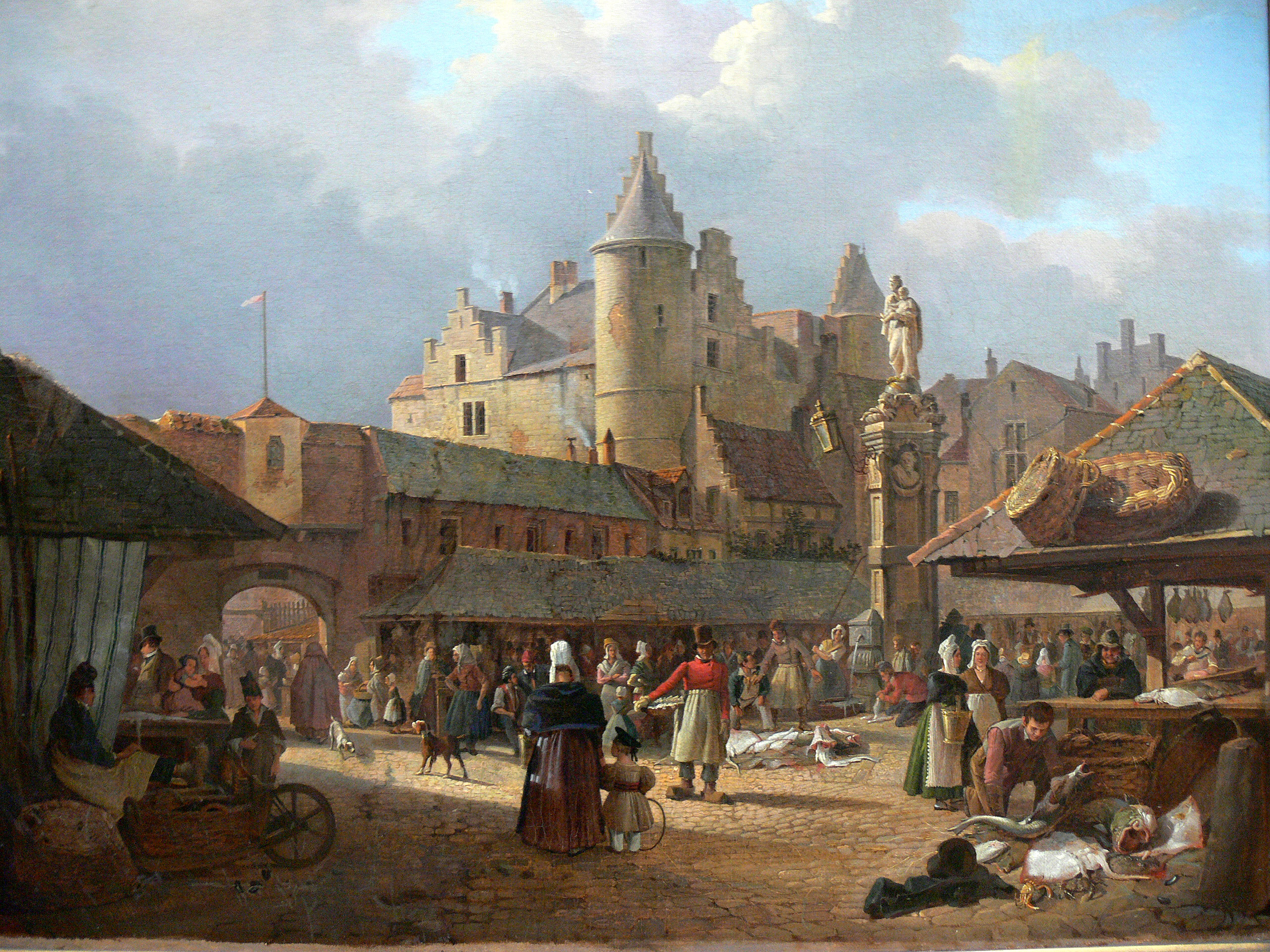 Painting by François-Antoine Bossuet ; Fish market (Koninklijk Museum voor schone Kunsten Antwerpen)